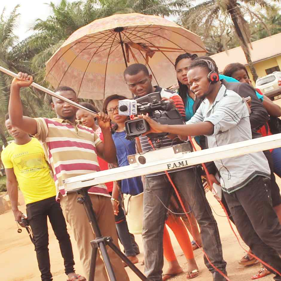 Nollywood